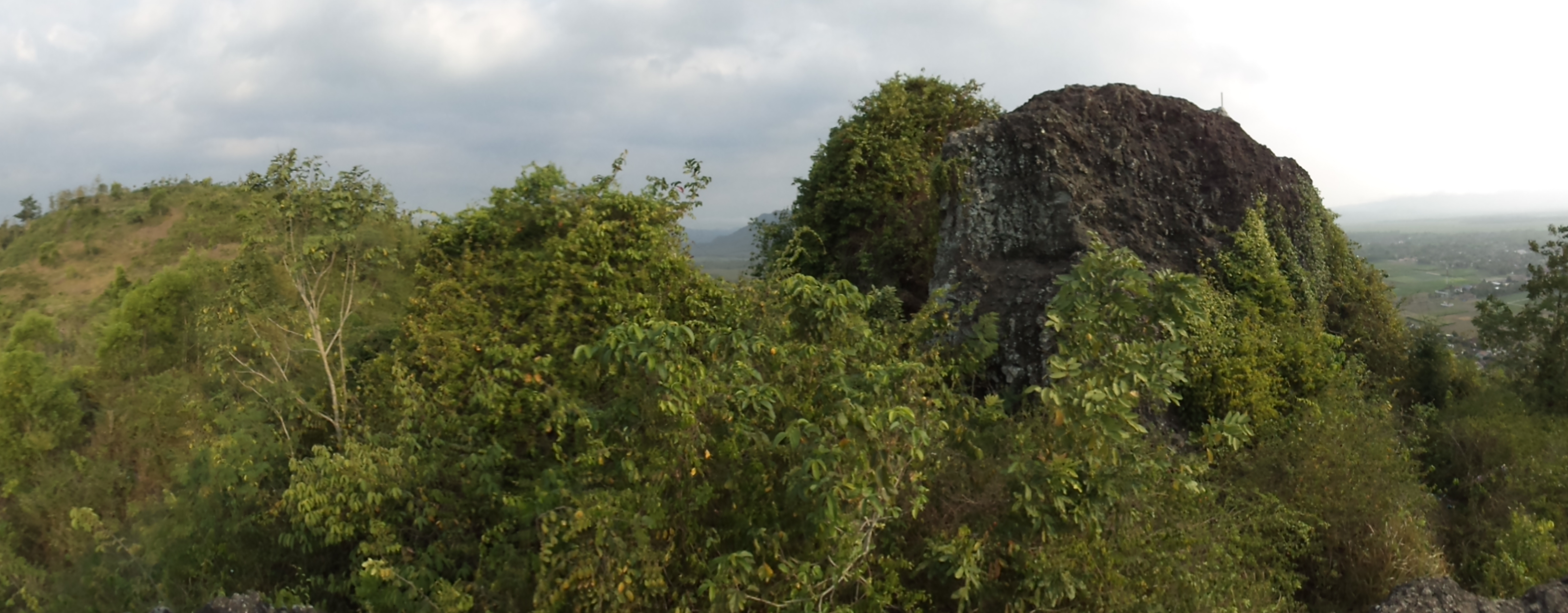 Photographer By Much Nesha AR